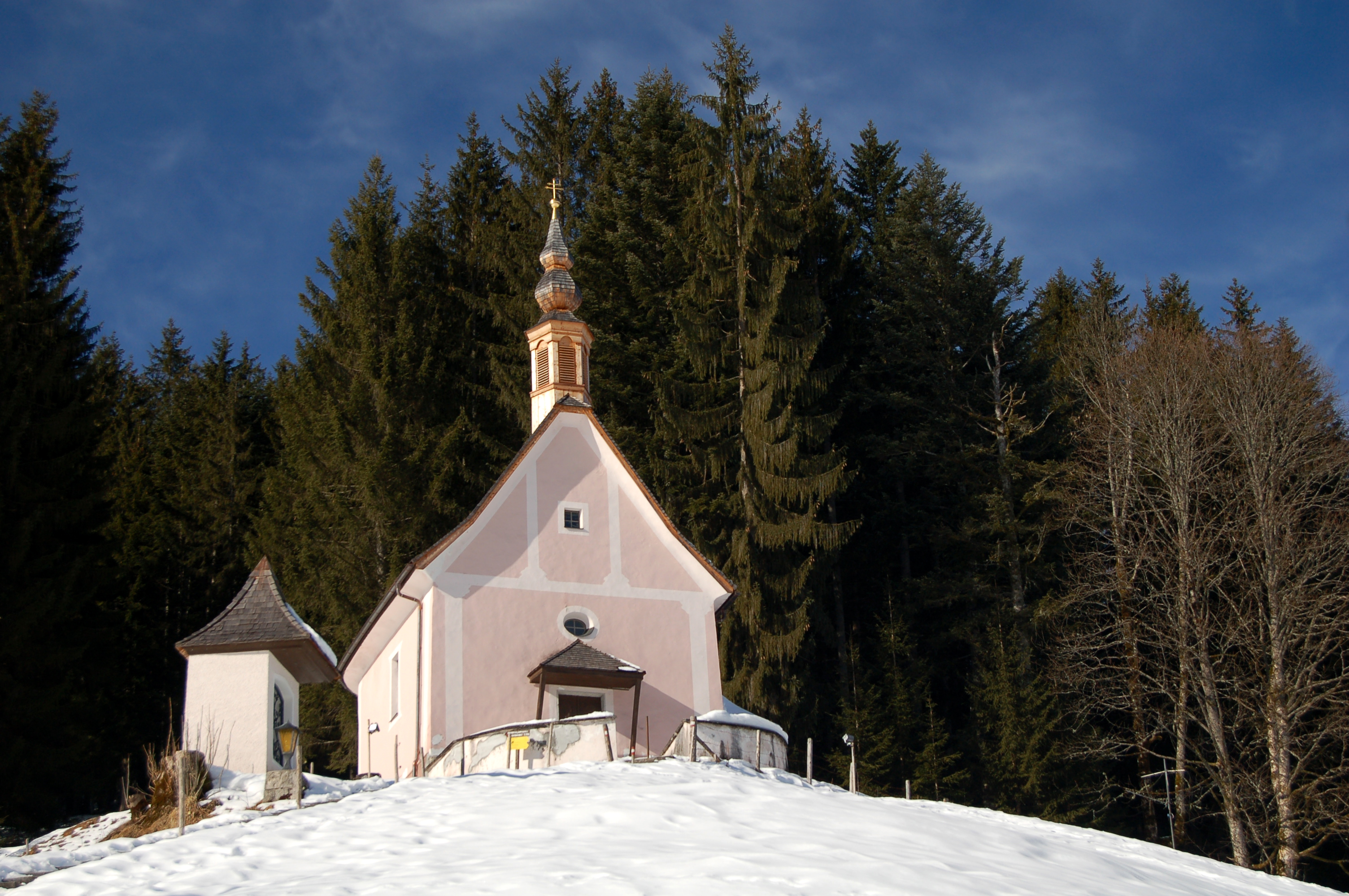 Gosau, Upper Austria. Calvary chapel.